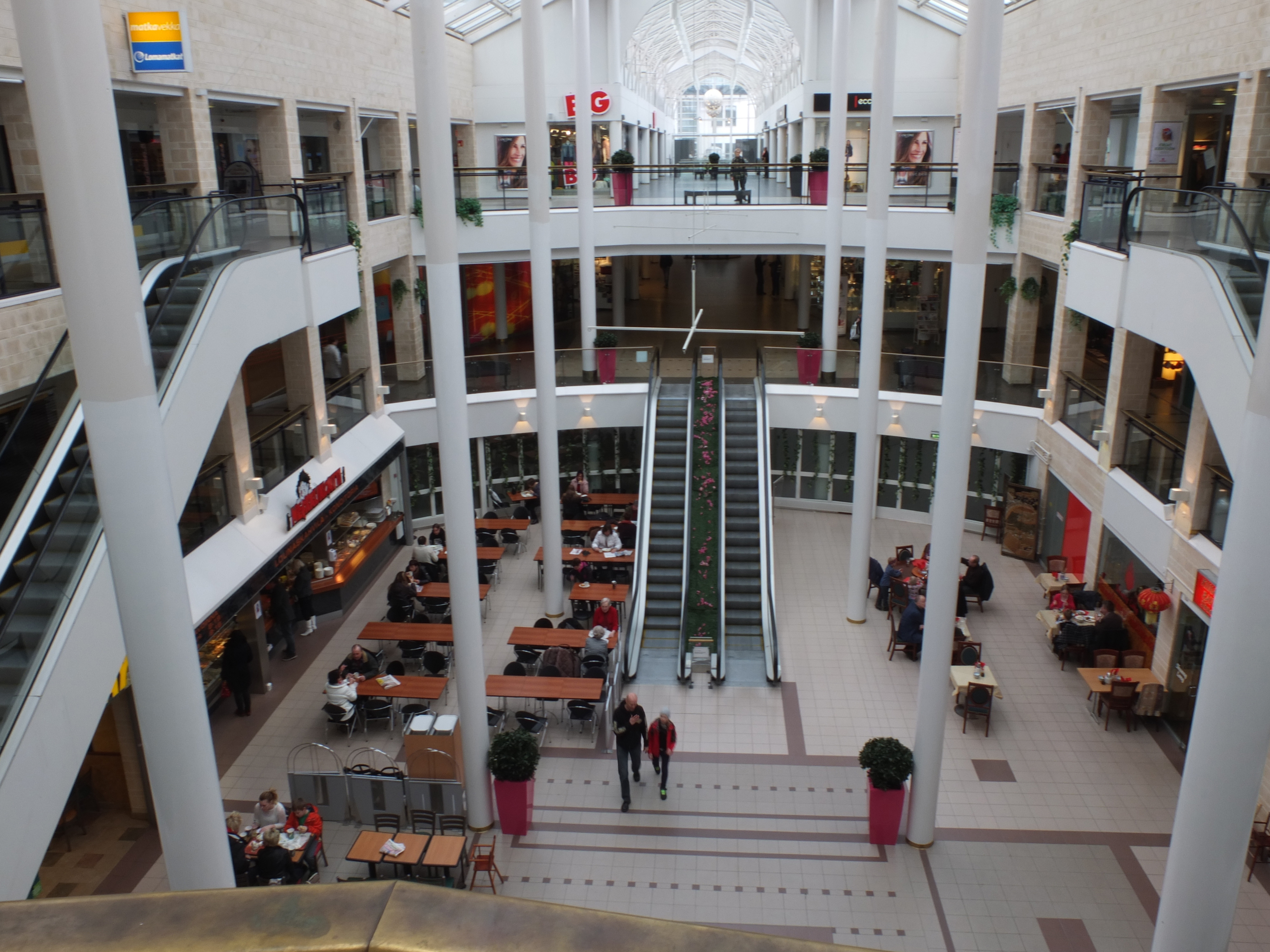 Interior of Torikeskus shopping mall in Seinäjoki, Finland, 2012.